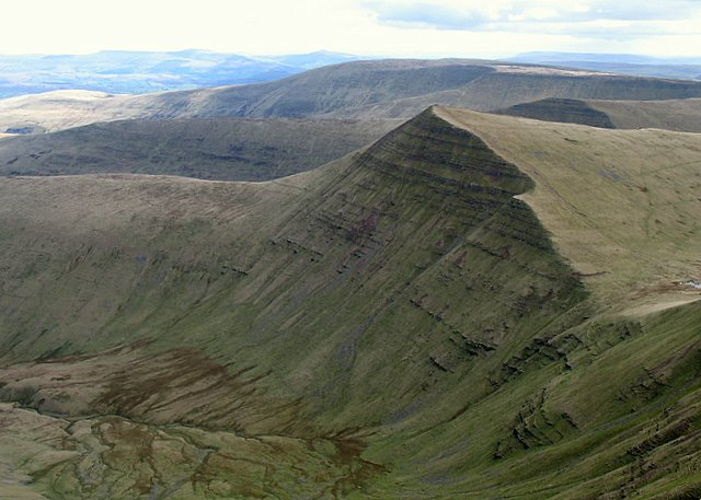 Cribyn and the top of Cwm Sere A view of Cribyn and its headwall taken from Pen Y Fan. The dendritic pattern of all the small streams draining the top of the cwm are clearly shown. These streams eventually all join to form the Nant Sere.